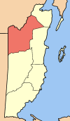 Map of Belize showing Orange Walk District